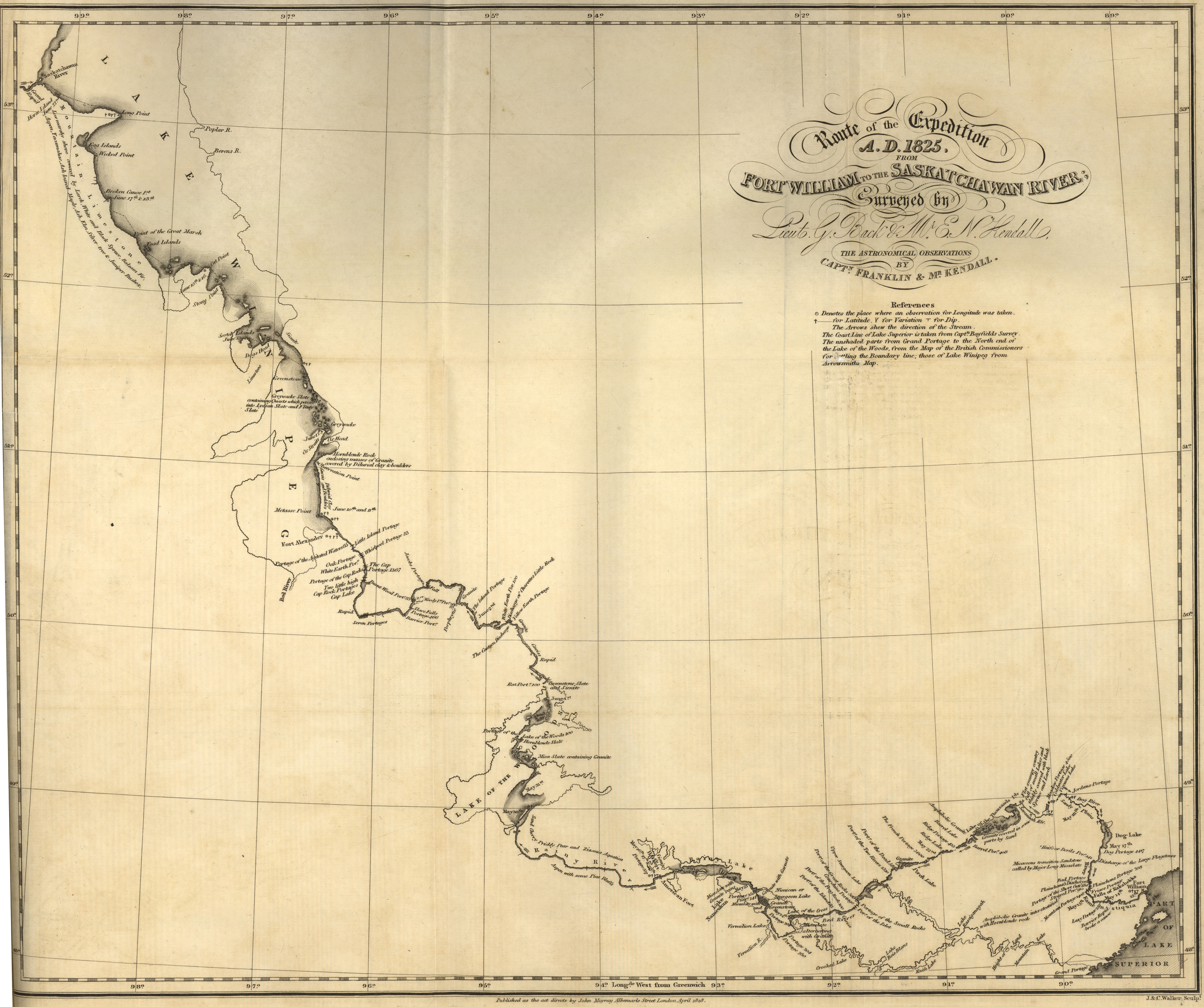 Franklin, John. Route of the Expedition A. D. 1825, from Fort William to the Saskatchewan River [map]. Scale not given. In: John Franklin. Narrative of a Second Expedition to the Shores of the Polar Sea in the Years 1825, 1826, and 1827. London: John Murray, 1828. Surveyed by G. Back & Mr. E. N. Kendall; The Astronomical Observations by Captn. Franklin & Mr. Kendall. Shows the places where an Observation for Latitude was taken. The Coast Line of Lake Superior is taken from Captn. Bayfields Survey. The unshaded parts from Grand Portage to the North end of the Lake of the Woods, from the map of the British Commissioners for settling the Boundary line; those of Lake Winnipeg from Arrowsmith’s Map. Captain John Franklin’s two land expeditions to the Arctic traveled through the area which today is Manitoba, and added substantially to the scientific knowledge of both the northern and southern parts of the province. Progress of the expedition can be easily followed since all the camping places are marked. In 1825 Franklin’s party traveled via New York, the Great lakes, Lake of the Woods and the Winnipeg River to the Arctic. Detailed comments on the rocks observed appear on the map, including the identification of the limestone on the west side of Lake Winnipeg as “Mountain Limestone”. On these maps we see the first results of the application of scientific knowledge by experienced scientific observers to the recording of data on the West. The base maps were from Arrowsmith, but in turn Arrowsmith and other cartographers obtained important information from the Franklin’s Expeditions. (Warkentin and Ruggles. Historical Atlas of Manitoba. map 82, p. 206) Image Courtesy of University of Manitoba : Archives & Special Collections